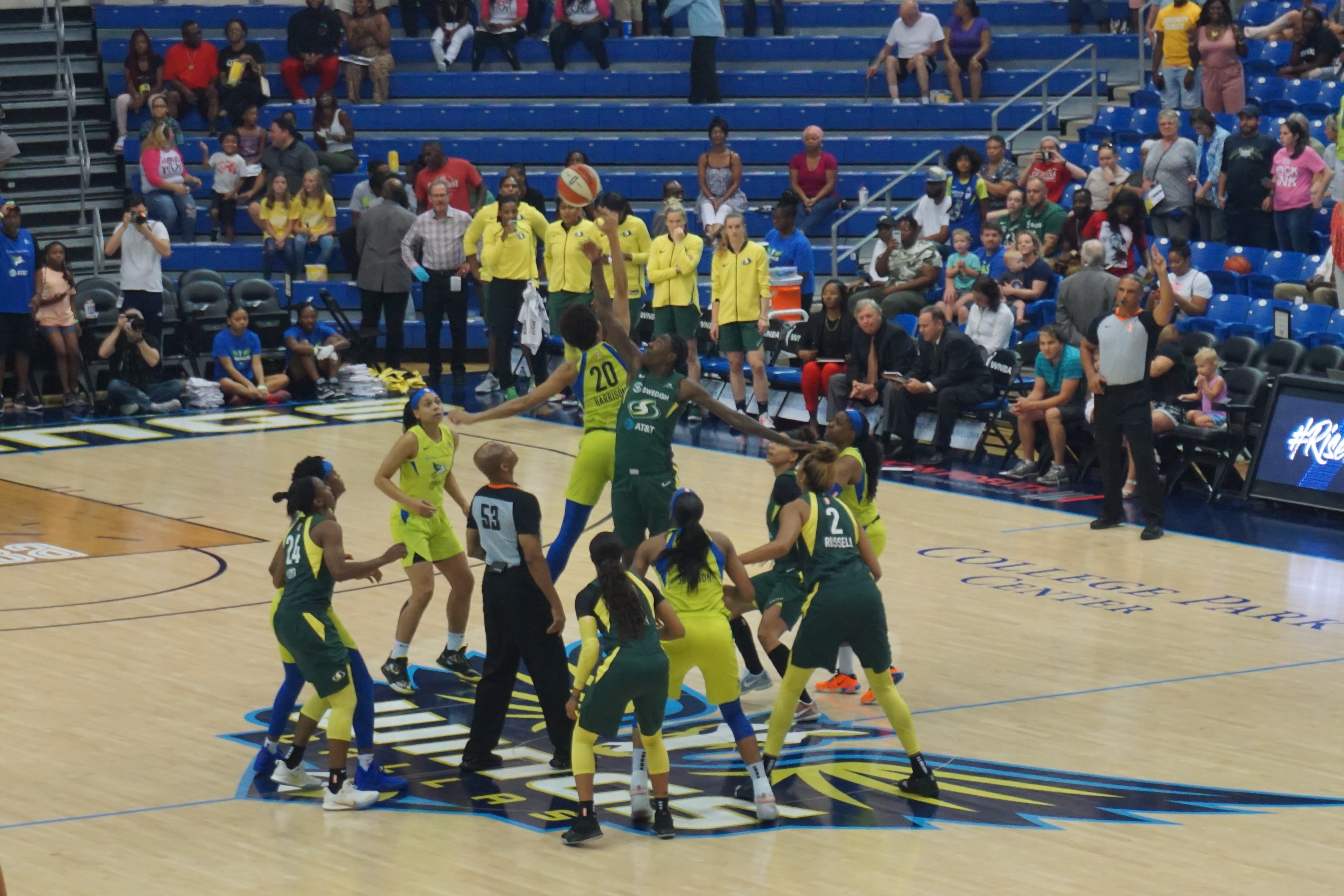 The opening tip of the Seattle Storm vs. Dallas Wings basketball game at College Park Center in Arlington, Texas (United States). Seattle won 78–64.